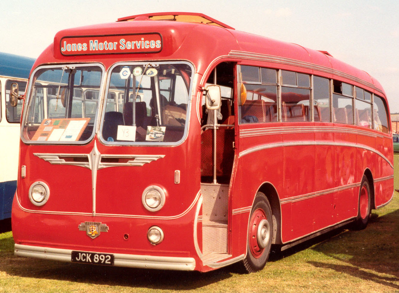 1956 Leyland Tiger Cub with Burlingham 'Seagull' coachwork. New to Ribble Motor services. Now preserved. Photographed by RXUYDC at RAF Woodvale Rally, August 7, 1983.